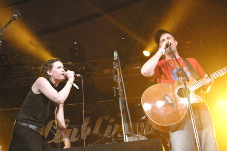 Bussetti performing live at the Dour Festival, 2004